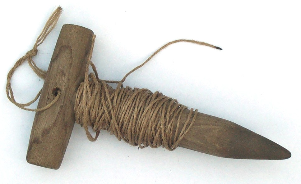 A small wooden T handled dibber with twine wrapped round. It can be driven into the ground as a peg and the twine stretched out to mark rows for sowing seeds.